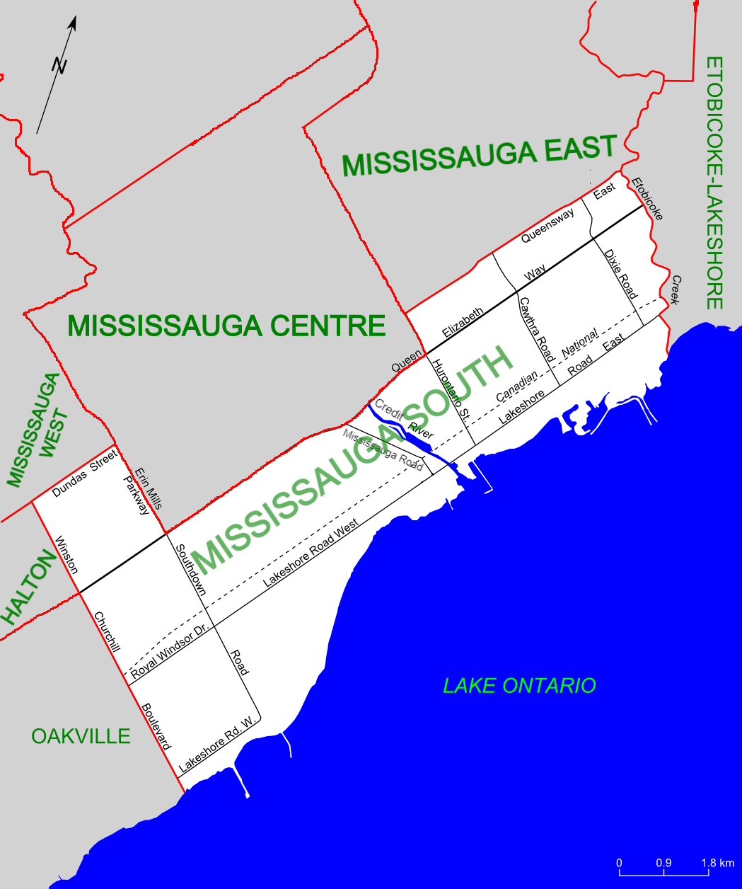 Map of the Mississauga South electoral district (1997-2004)